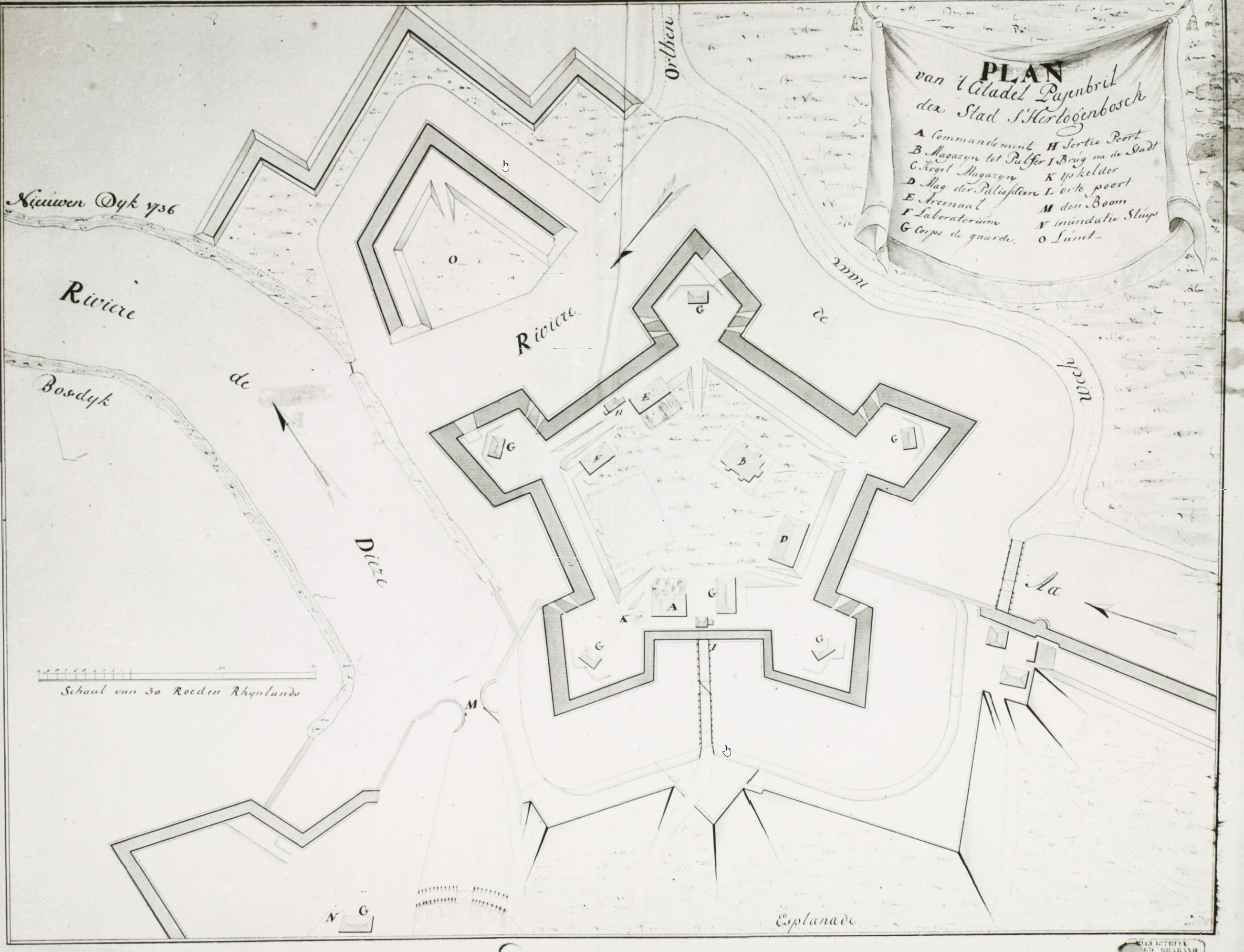 Map of the citadel of 's-Hertogenbosch. Probably late 1780s because the main building of 1789 seems laid out, though not yet built.